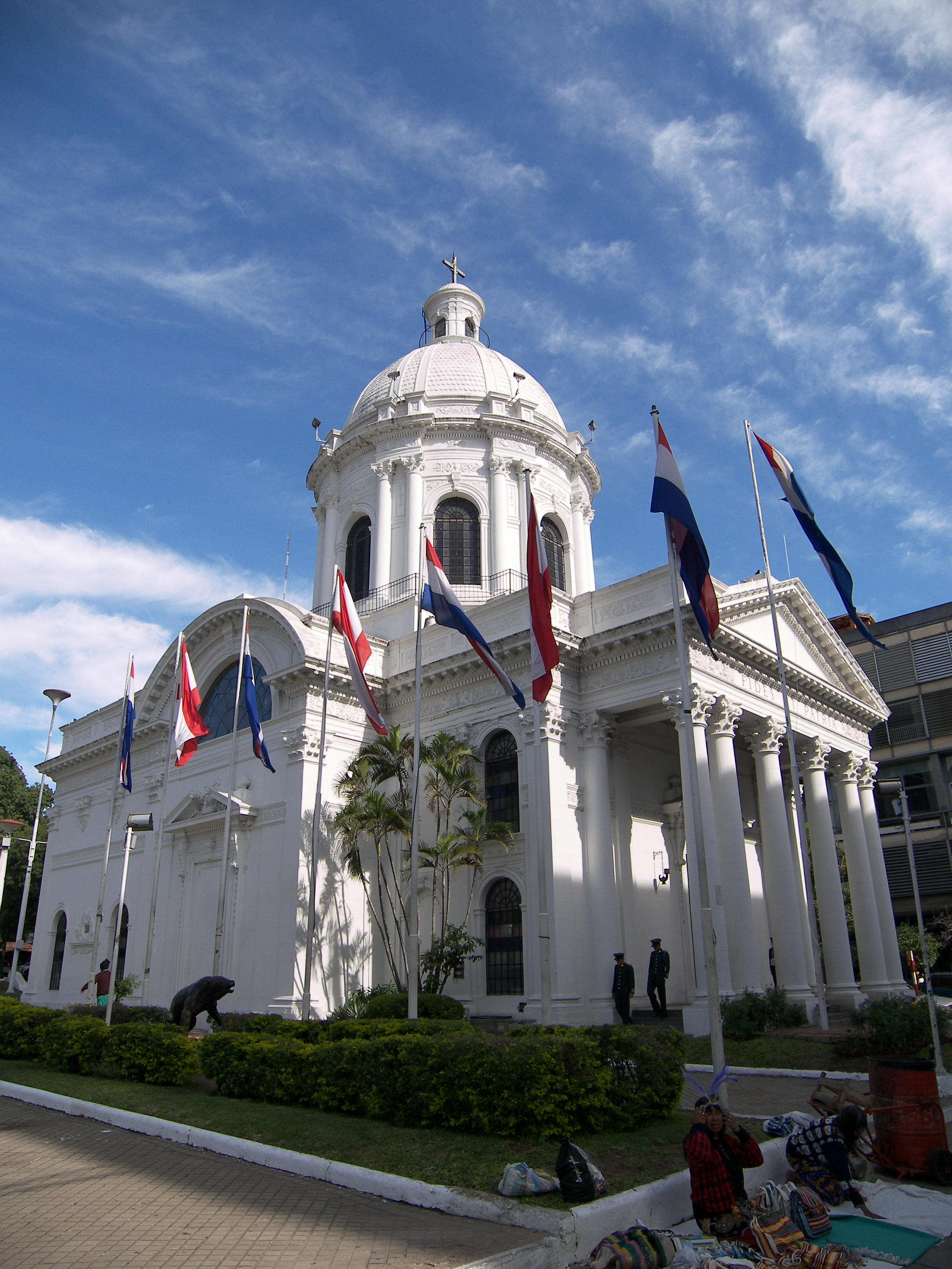 Panteón Nacional de los HéroesGesù